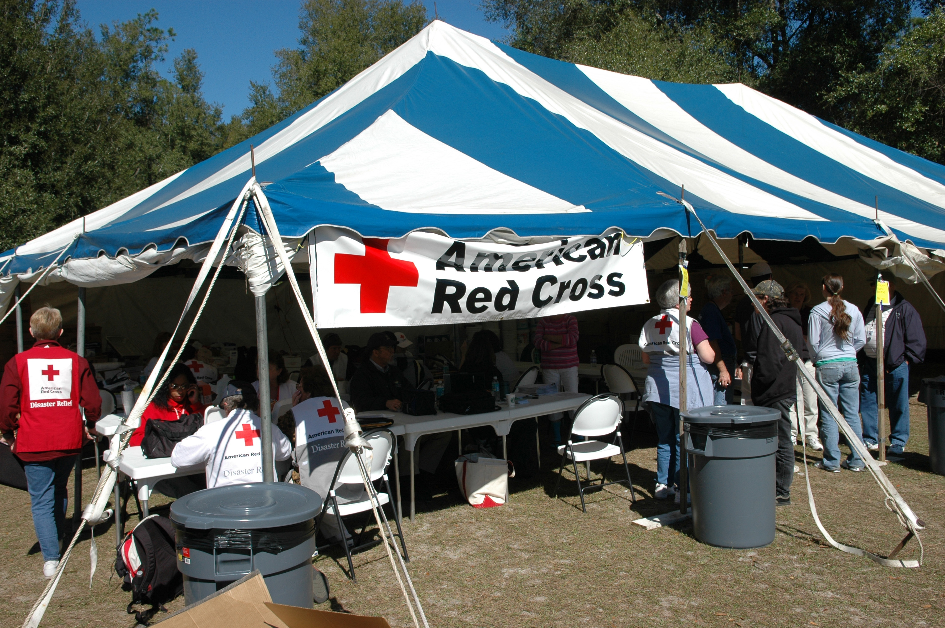 Lady Lake, Fla., February 6, 2007 -- The American Red Cross is set up in a community hard hit by the recent tornadoes. Volunteer agencies are an integral part of the response to and recovery from disasters. Mark Wolfe/FEMA